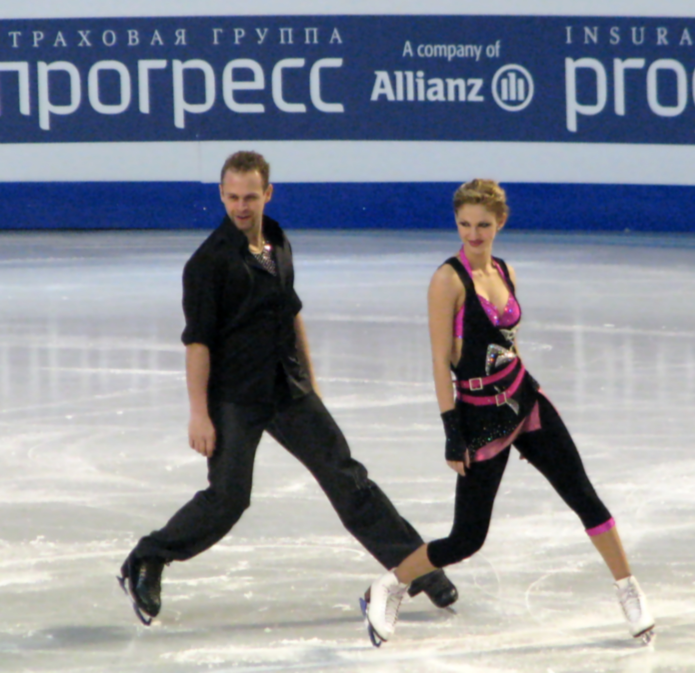 Nora Hoffmann & Maxim Zavozin in 2010 European Figure Skating Championships (Ice Dance Free Dance)